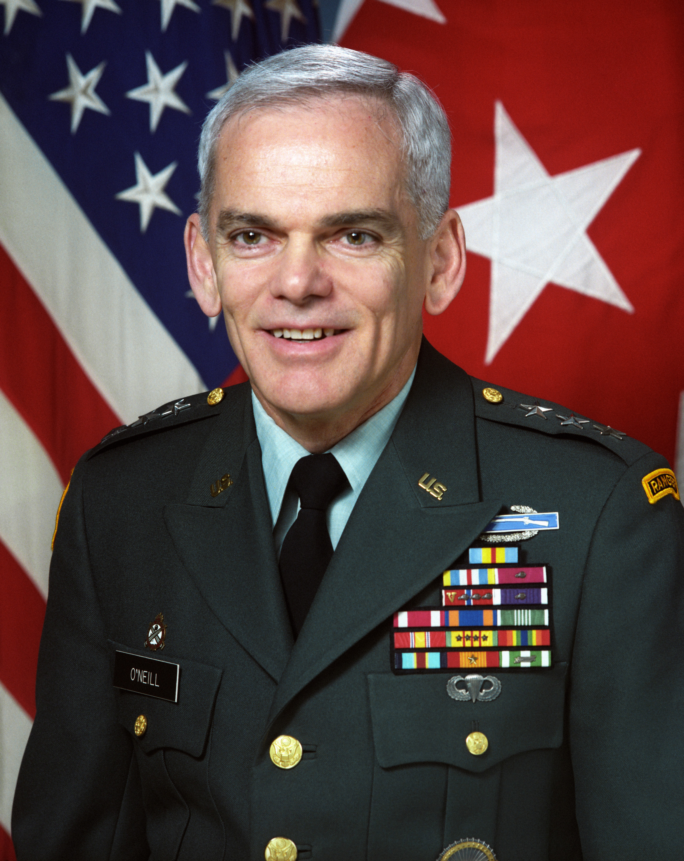 Lt. Gen. Malcolm R. O'Neill